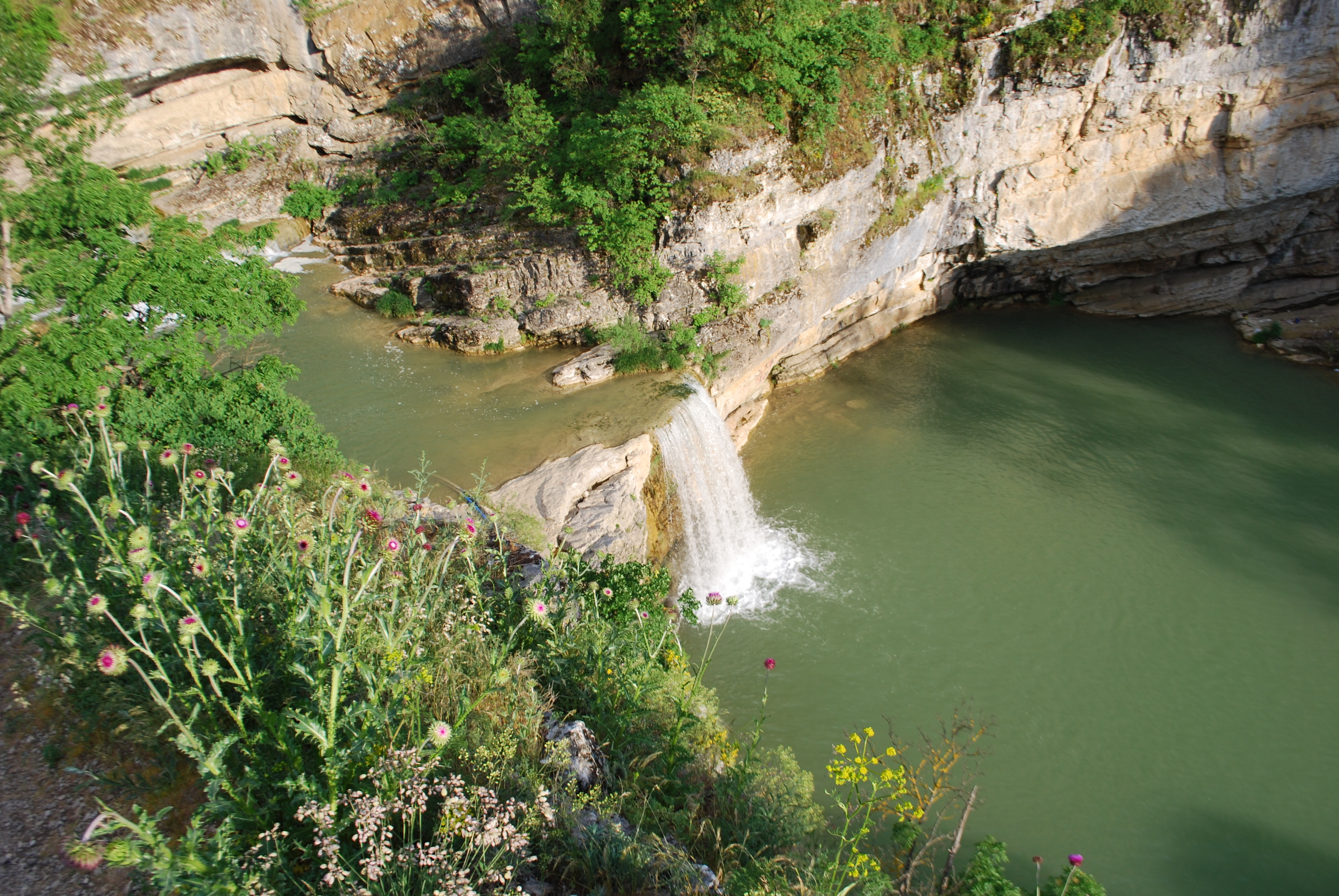 View from above, waterfall on Mirusha river, Kosovo.